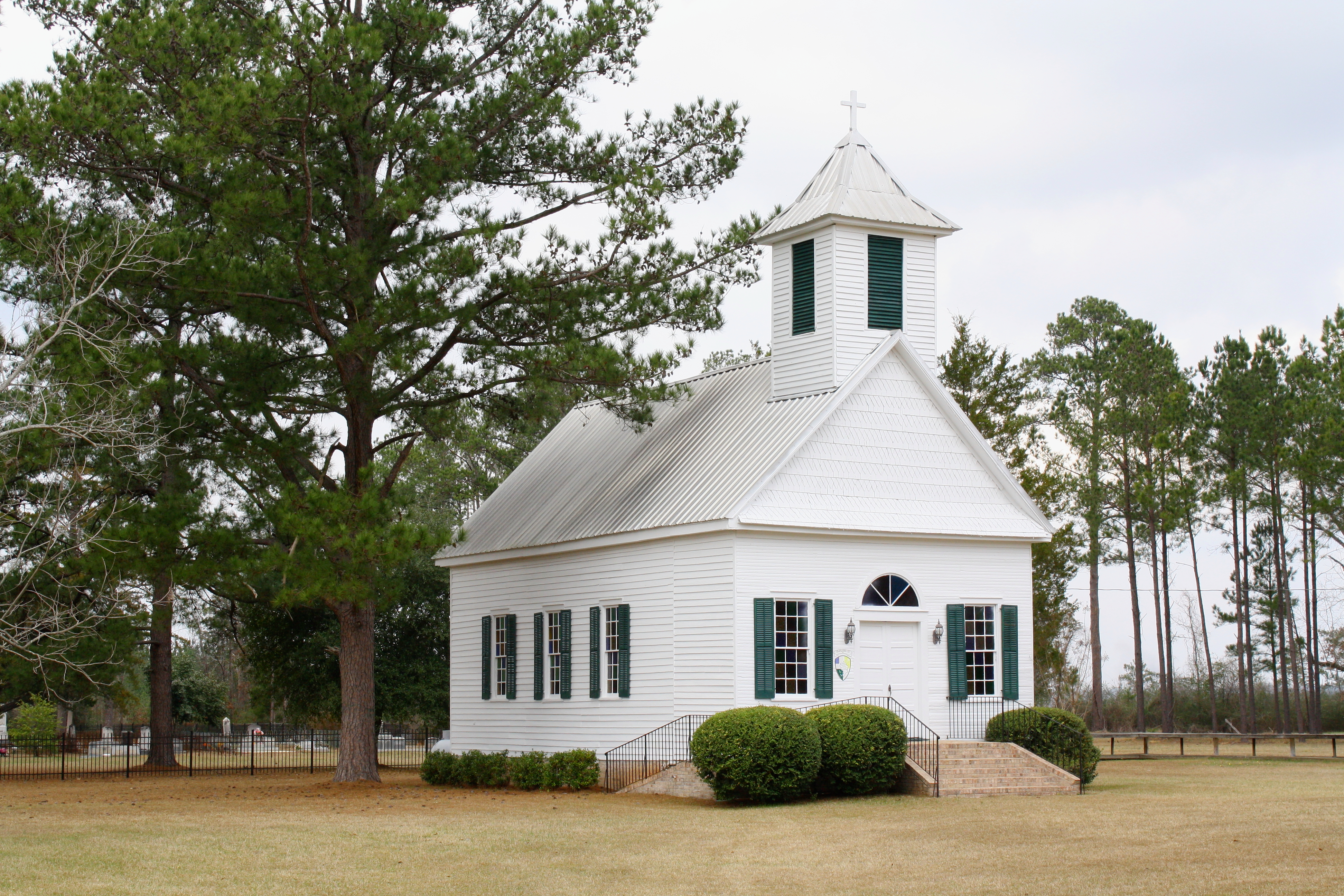 The Gainestown Methodist Church in Gainestown, Clarke County, Alabama. Built in 1911, it is on the National Register of Historic Places.